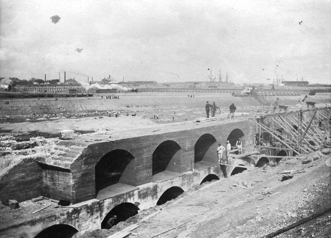 Freeport of Copenhagen under construction in the 1890s.